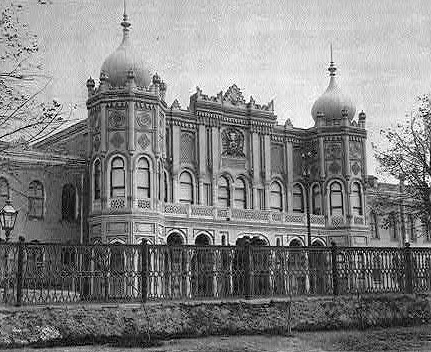 Taksim Military Barracks — in Istanbul. Demolished in 1939